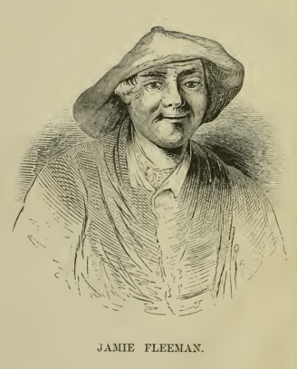 Line drawing of Jamie Fleeman 1713-1778 (aka James Fleming), the Laird of Udny's Fool; Book 'The Life and death of Jamie Fleeman' by Pratt, John B. (John Burnett), 1798-1869